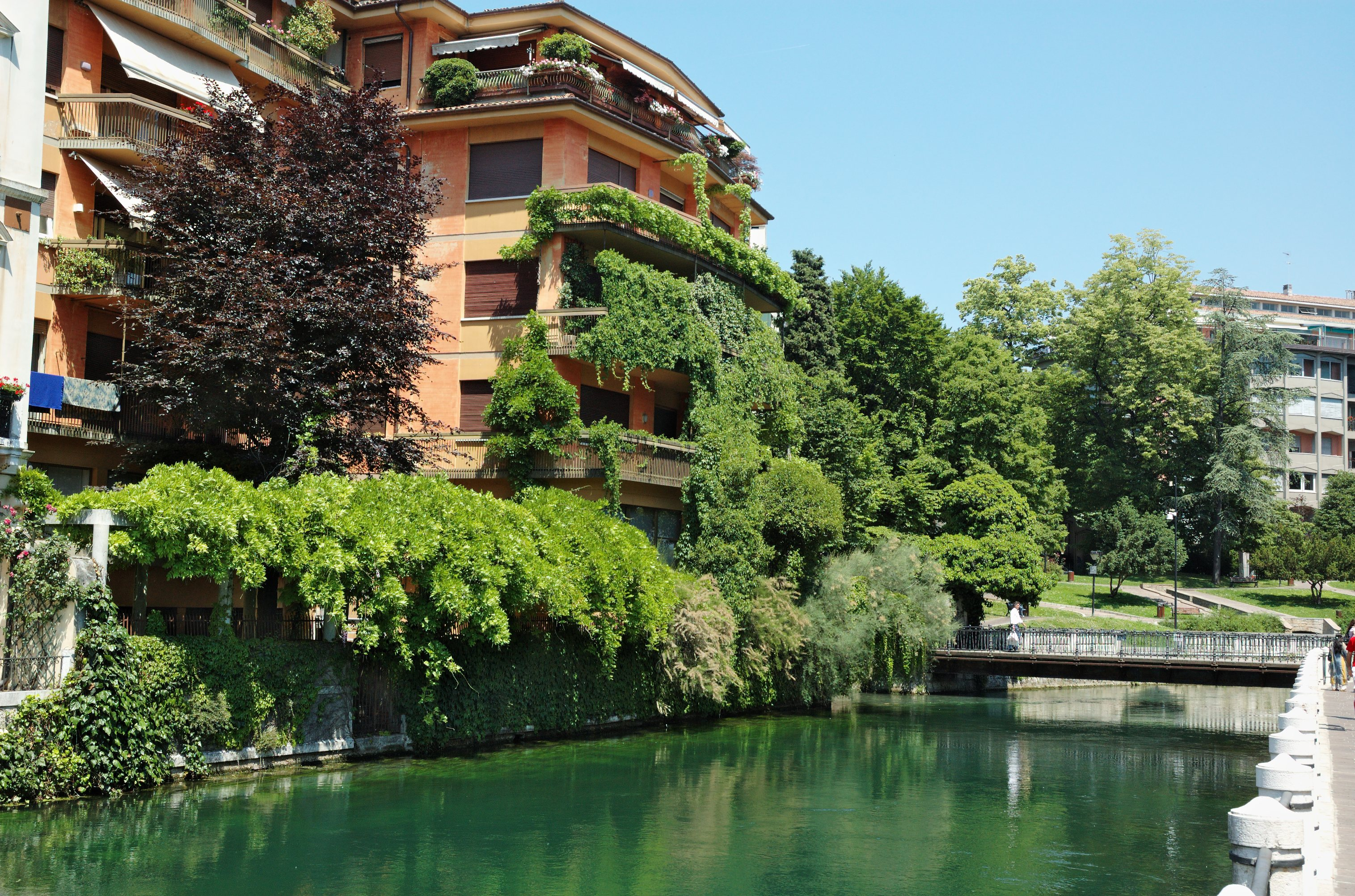 River Sile in Treviso, with an apartment building on the left and a bridge on the right.